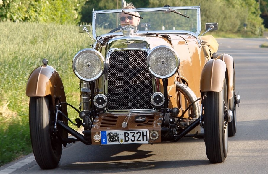 Aston Martin 1.5-litre 2.4-seater "InterLeMans" - "International" mit "LeMans"-Motor, 1932